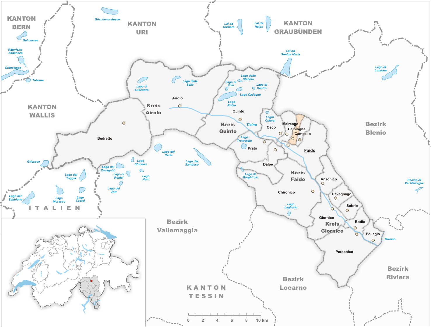 Municipality Calpiogna